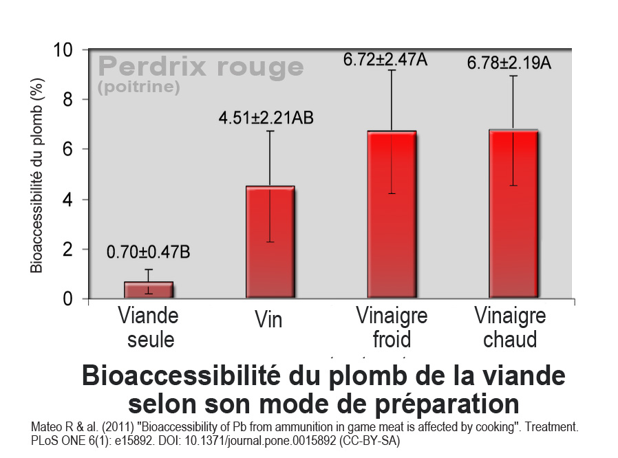 Mean±SE percentage Pb bioaccessibility in red-legged partridge breast meat as a function of the cooking treatment used on the meat before it was subjected to an in vitro human digestion simulation. Values shown here include all meat samples, with and without evidence of Pb ammunition by X-ray. Bioavailability values have been calculated for all samples, not just those containing Pb ammunition residues. Means sharing the same uppercase letter were not significantly different (Kruskal-Wallis test)